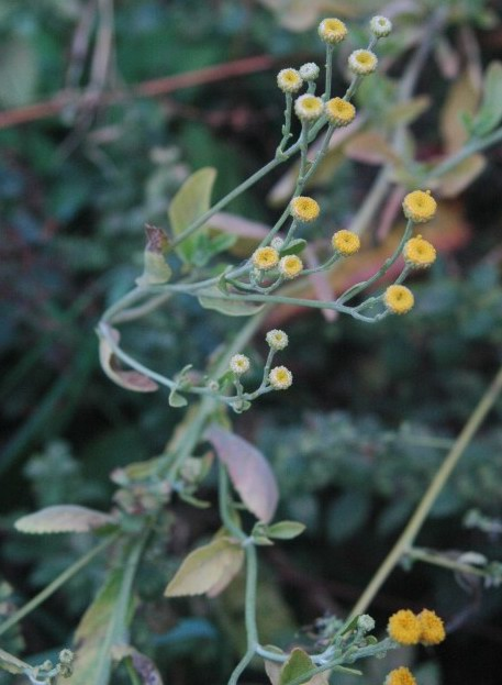 Tanacetum balsamita (Natur-species).